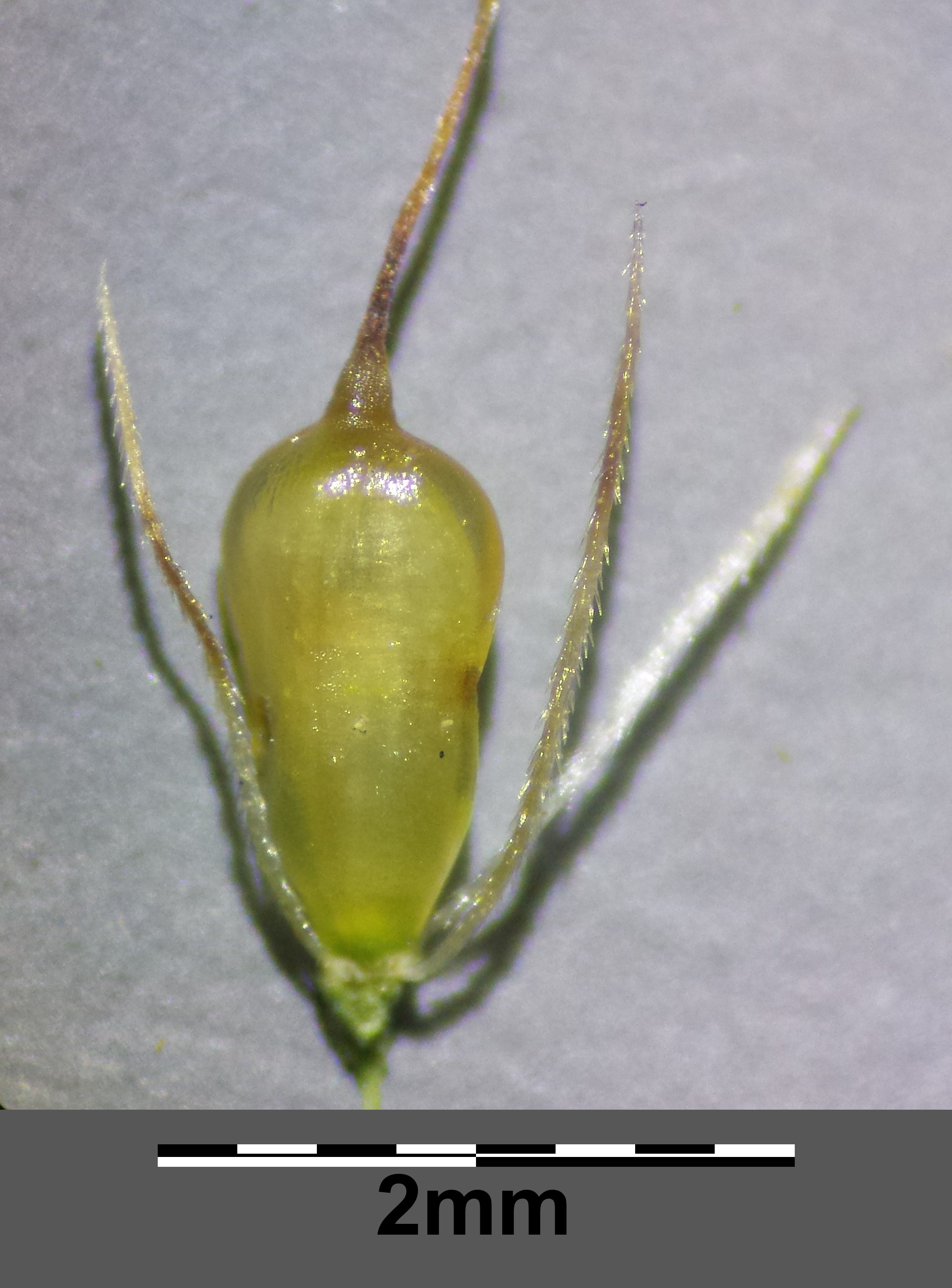 Ovary with bristles Taxonym: Bolboschoenus maritimus s. str. ss Fischer et al. EfÖLS 2008 ISBN 978-3-85474-187-9 Location: pond in Leopoldau, Vienna-Floridsdorf - ca. 160 m a.s.l. Habitat: shore of a pond